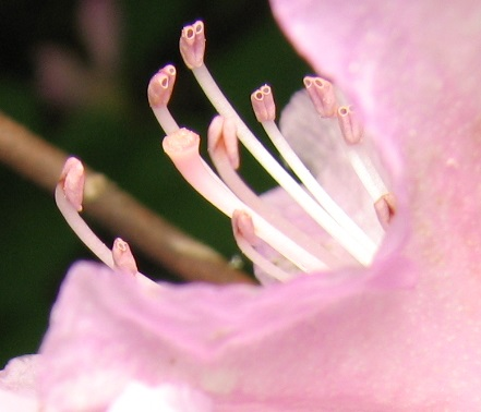 Poricidal anthers of azalea. Buzz pollination. Corneille Bryan Native Garden, Lake Junaluska, Haywood County, North Carolina, USA. May 26, 2010